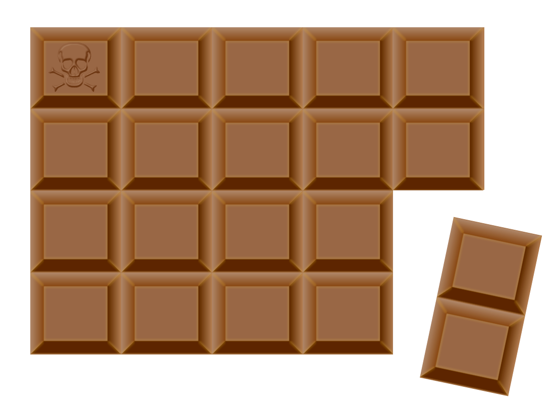 A move in the mathematical game of Chomp. (original bar image from released as CC0)